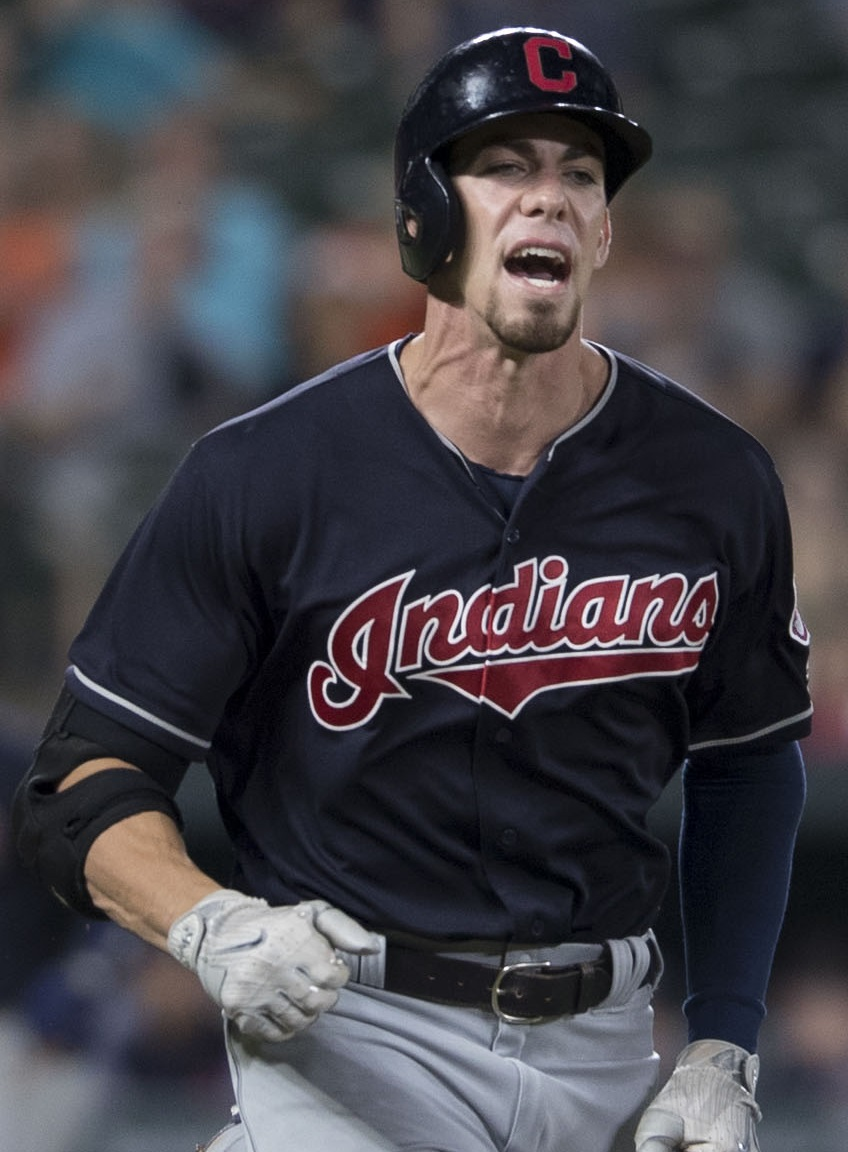 Indians at Orioles 6/20/17